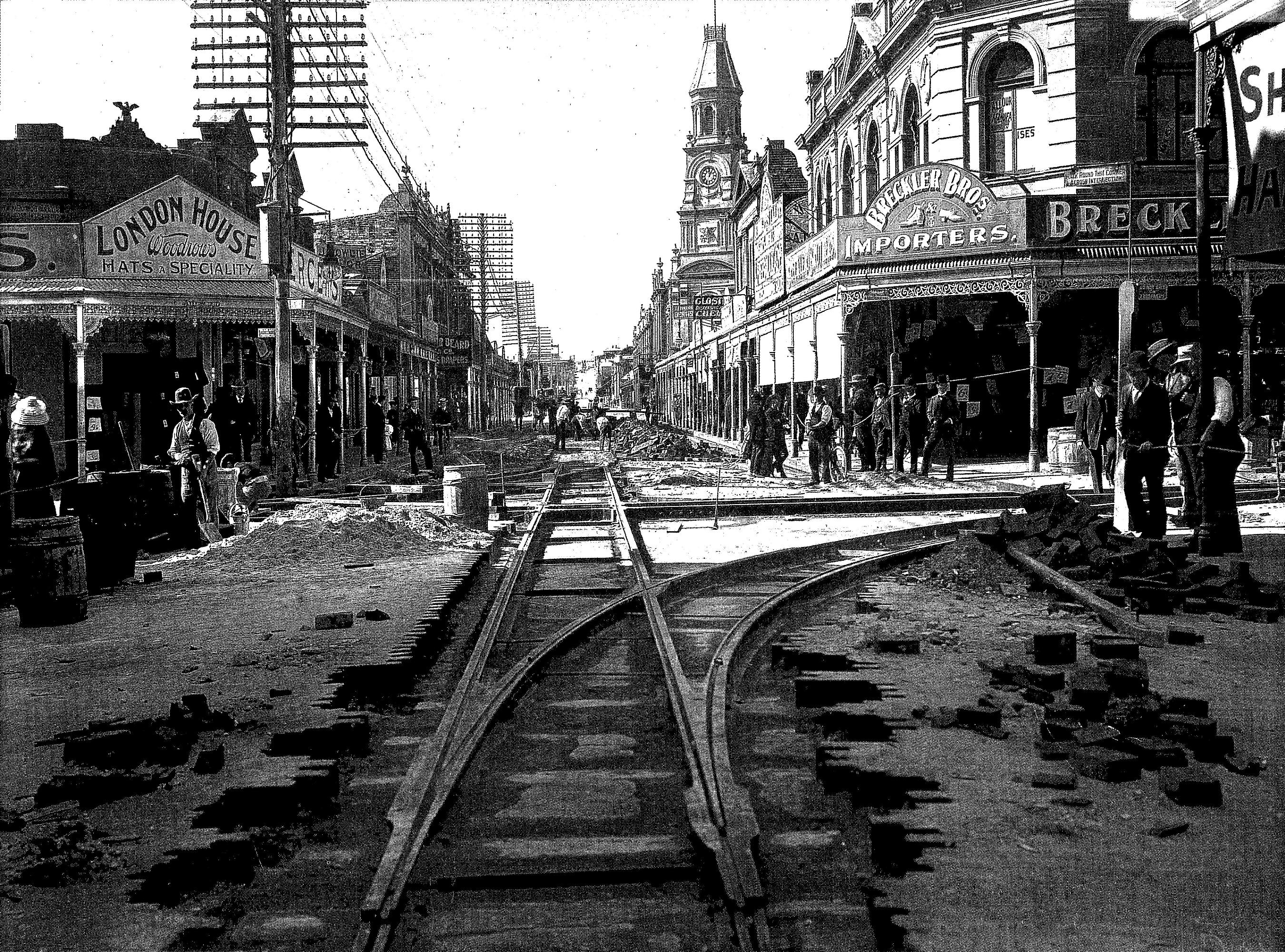 This is a digital scan of "Laying tramlines", RWAHS R1770 in the photographic collection of the Royal Western Australian Historical Society. The image shows tramlines being laid in Fremantle, Western Australia, in 1905. The photographer is standing on the west side of Market Street, looking eastwards along High Street, through what is now the High Street Mall and Kings Square. The building in the background with a clock tower is the Fremantle Town Hall. Note the Jarrah (Eucalyptus marginata) paving blocks in the foreground.